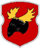 Coat of Arms of Vasilkau (Poland), old Беларуская (тарашкевіца): Герб места Васількаў, стары